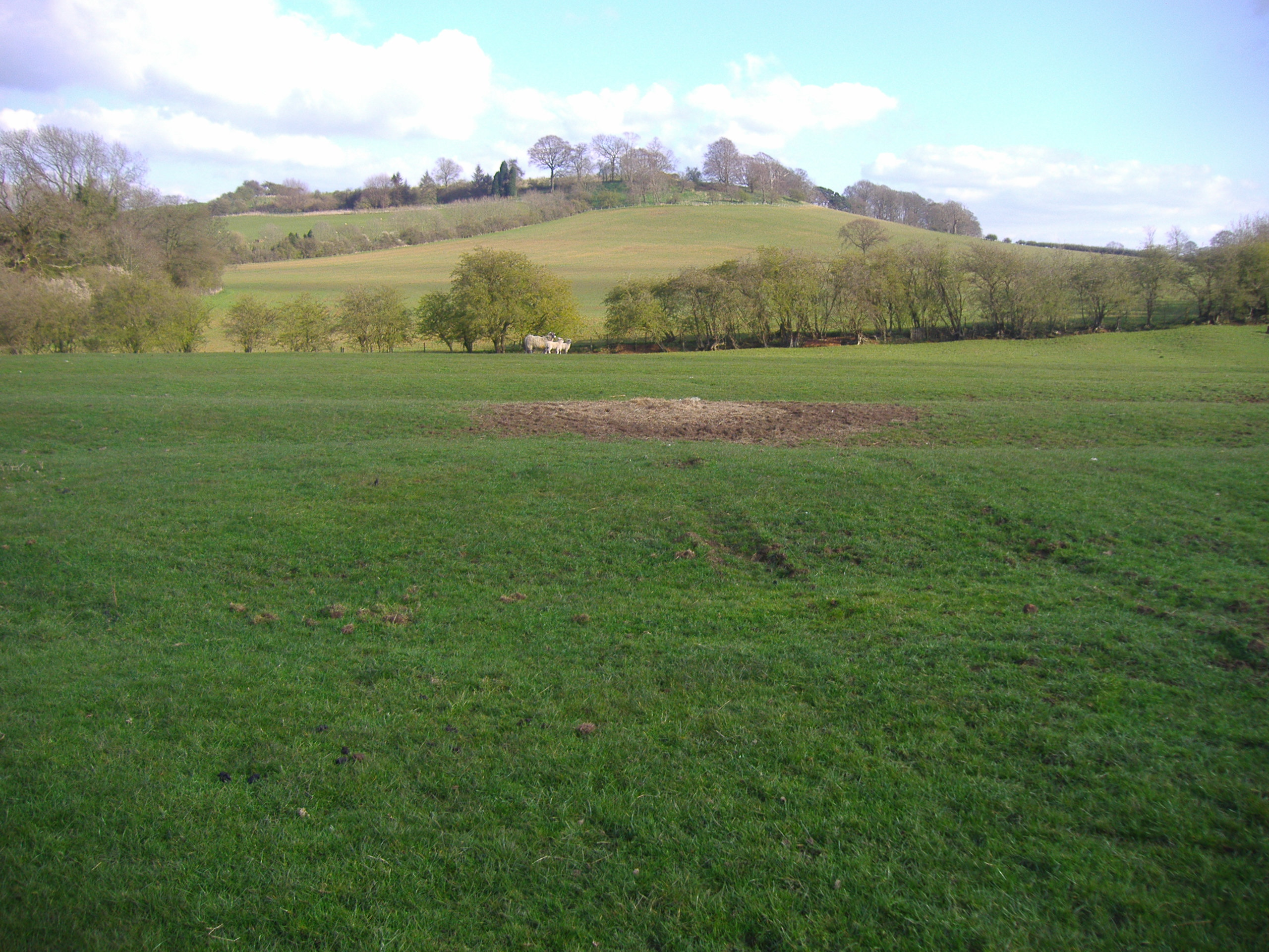 A Digital photograph of Arbury Hill, the highest point in the county of Northamptonshire.